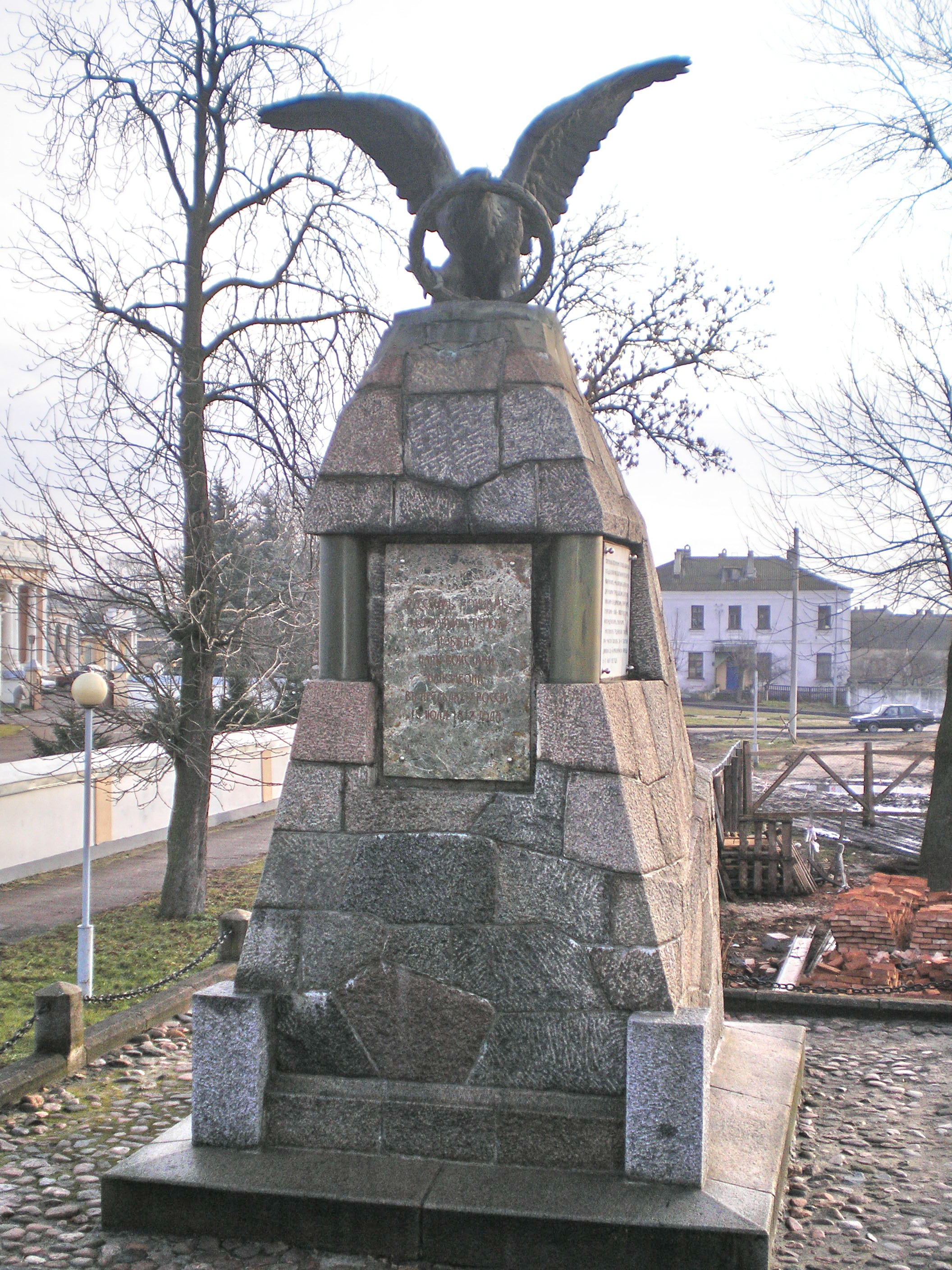 Monument of the victory of Russian army in the Kobrin Battle (1812)